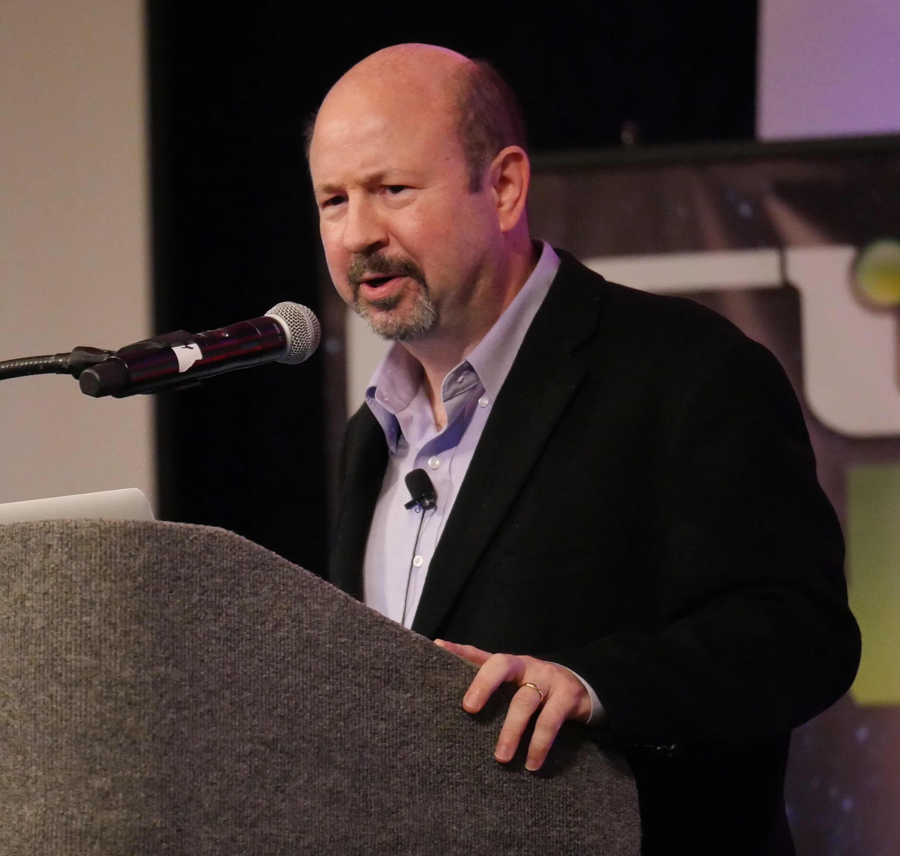 Michael Mann The Madhouse Effect How Climate Change Denial Is Threatening Our Planet Destroying Our Politics and Driving Us Crazy CSICon 2016